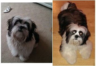 6-month Lhasa Apso before and after grooming